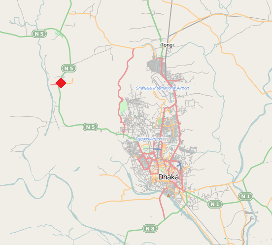 I create this using Open Street Map